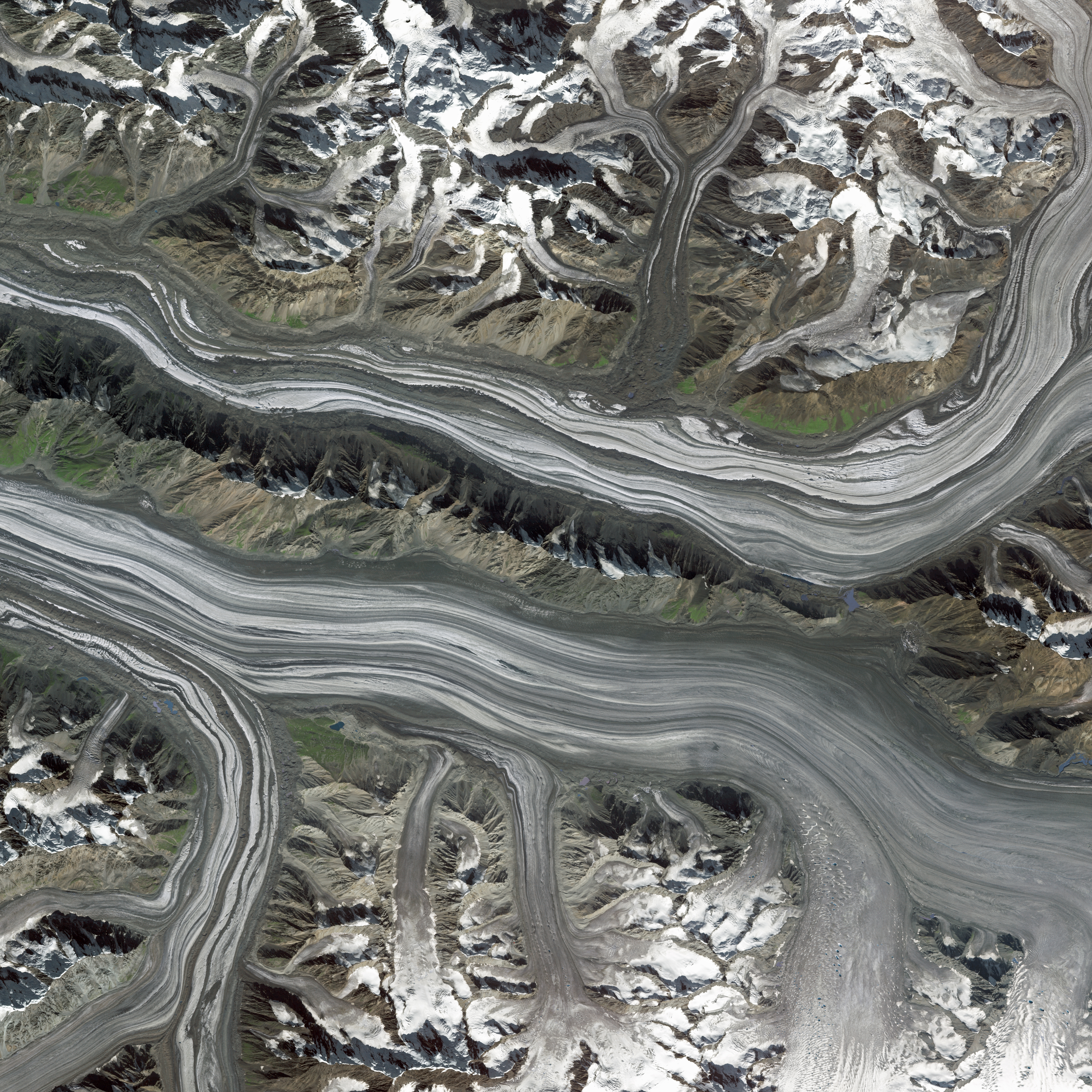 Logan and Walsh Glaciers, by SPOT Satellite